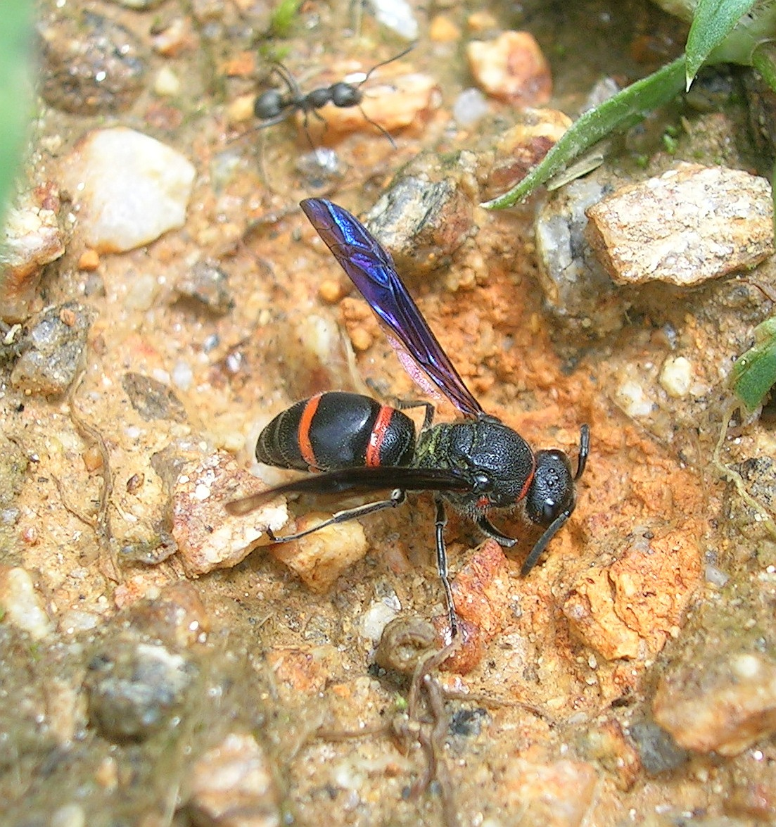 Unknown Wasp, Hymenoptera from Munsiyari, the Central Himalayas, India